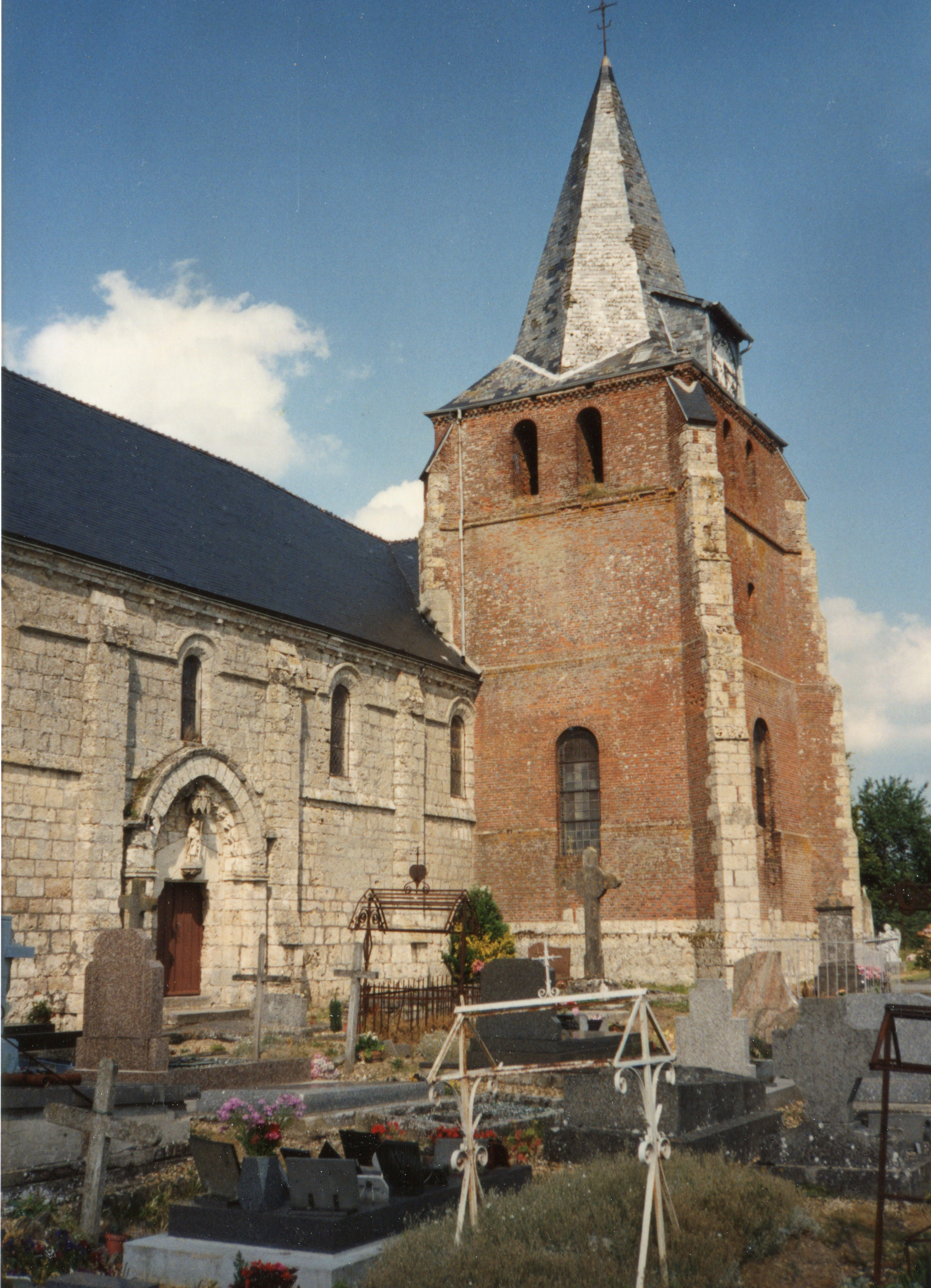 Église Saint-Rémi de Bosmont-sur-Serre en 1991